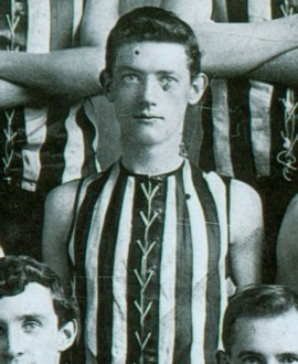 Photograph of Bert Reitman in 1906.